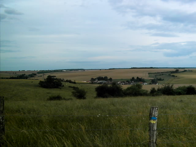 Panorama of Annonville, taken from the north